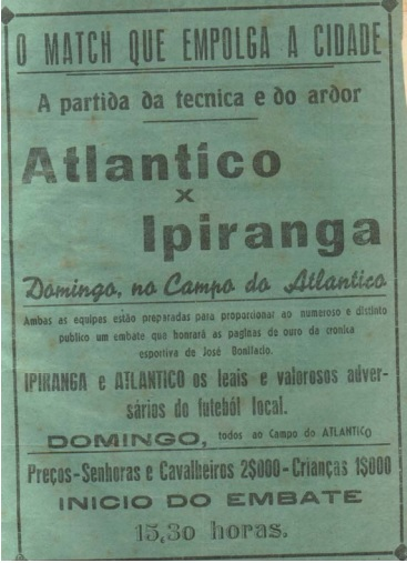 Poster about a match between Ypiranga x Atlantico in 1939